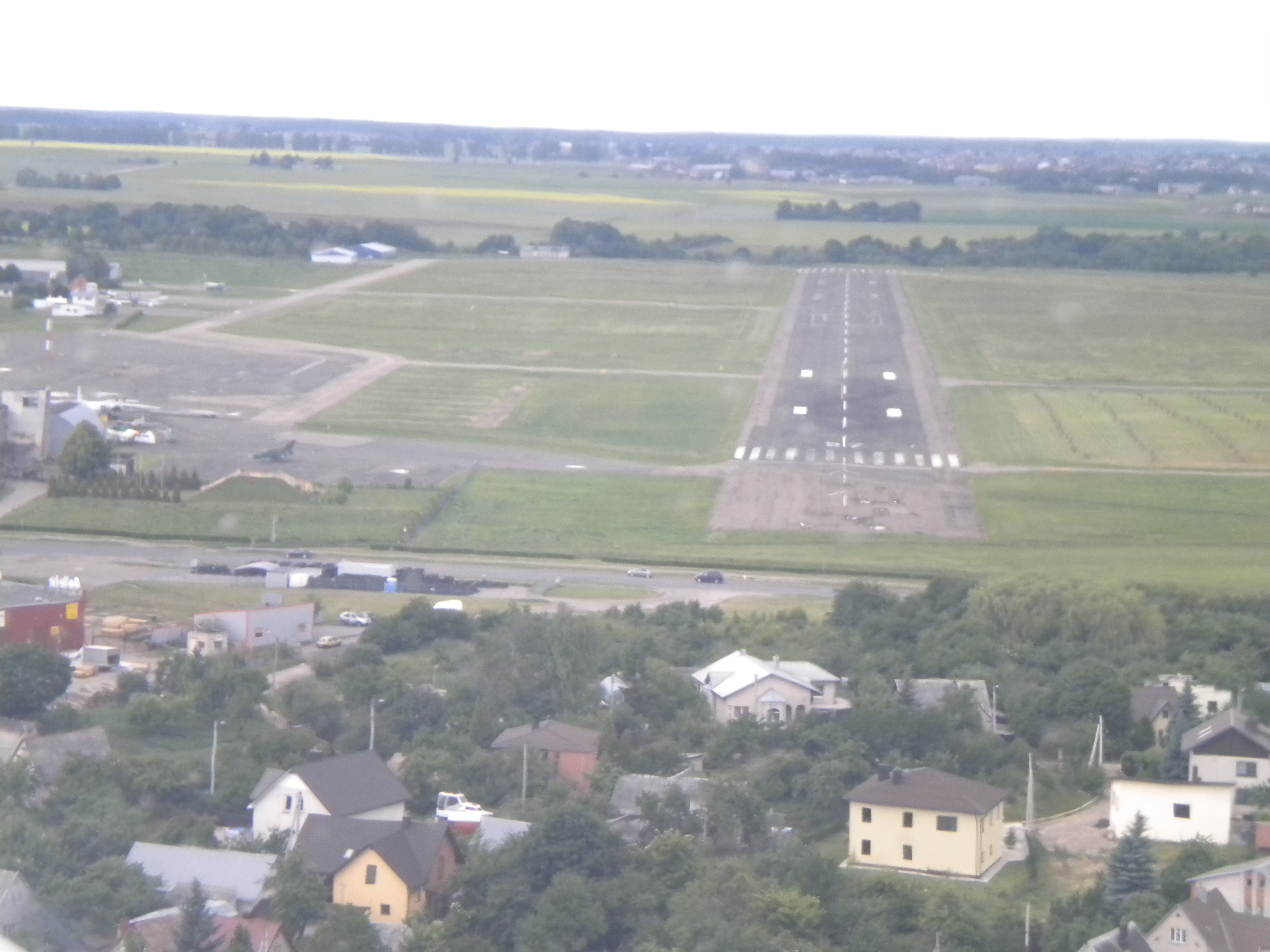 Approaching Aleksotas Airport (EYKS) Runway 27